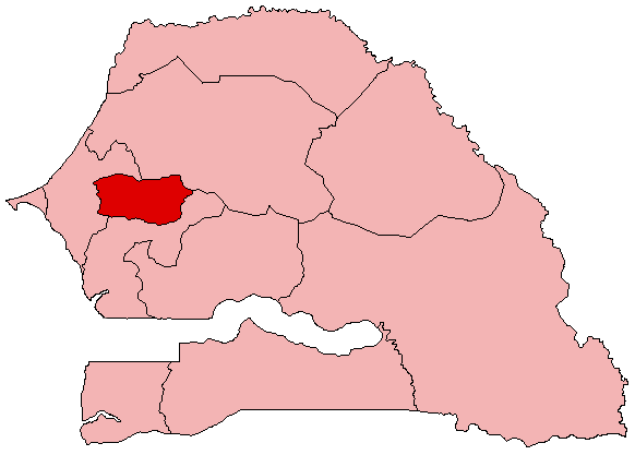 Map of Diourbel region, Senegal.